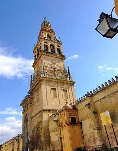 Campanario de la Mezquita-Catedral de Córdoba que recubre el antiguo alminar.